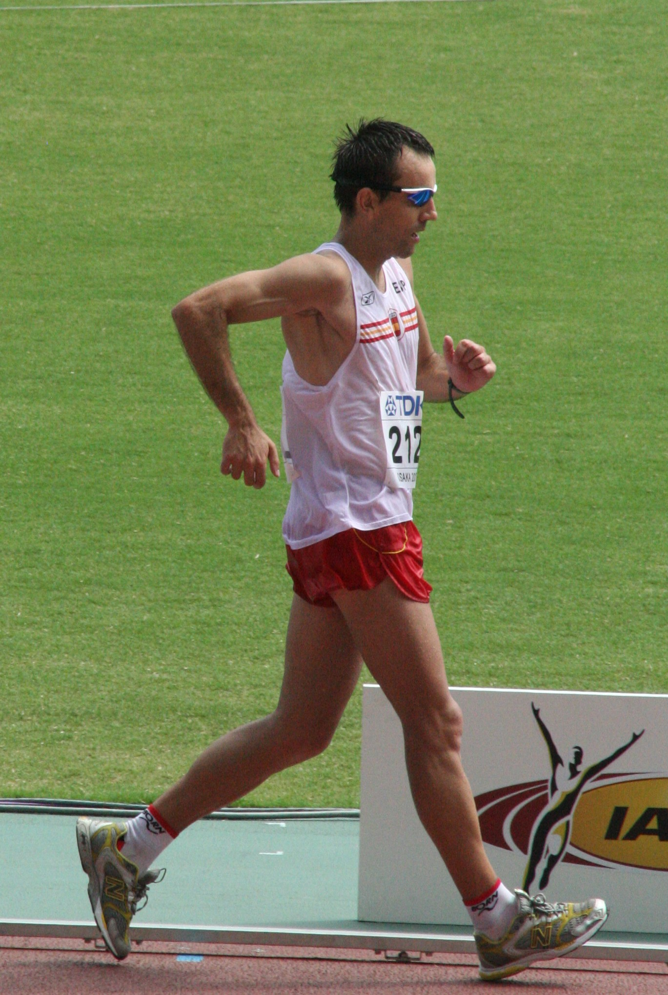 World Athletics Championships 2007 in Osaka - Race Walker Mikel Odriozola near the finishing line of the men*s 50 kms. Shows narrowly one foot in touch with the ground